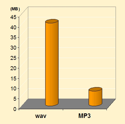 Memory needs by wav and MP3